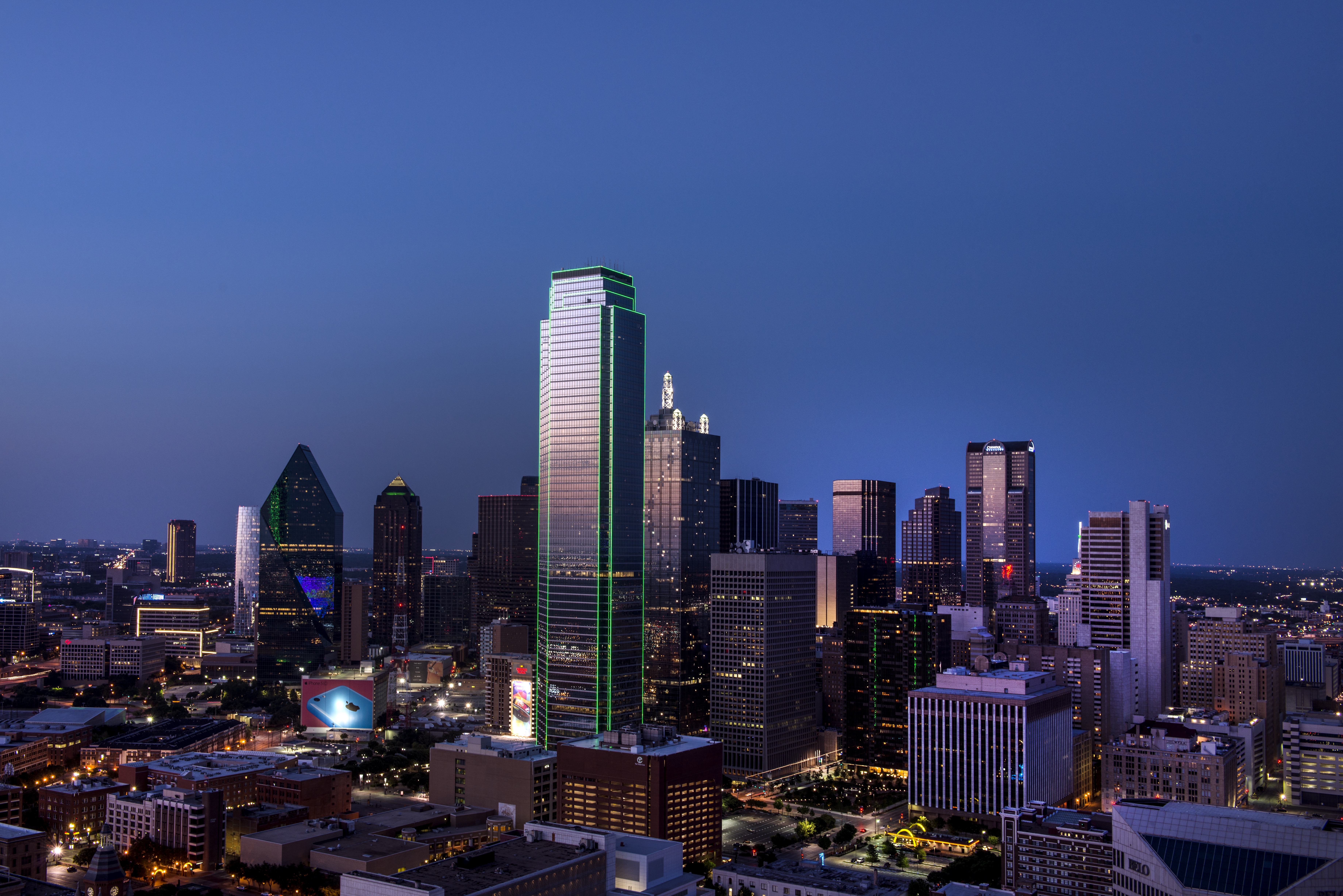 This is an image of Downtown Dallas at night.